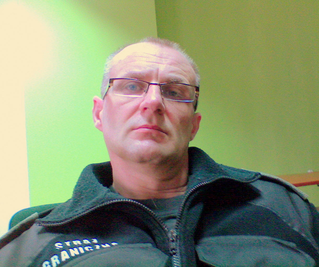 Włodzimierz Karsznia, Polish Border Guard officer